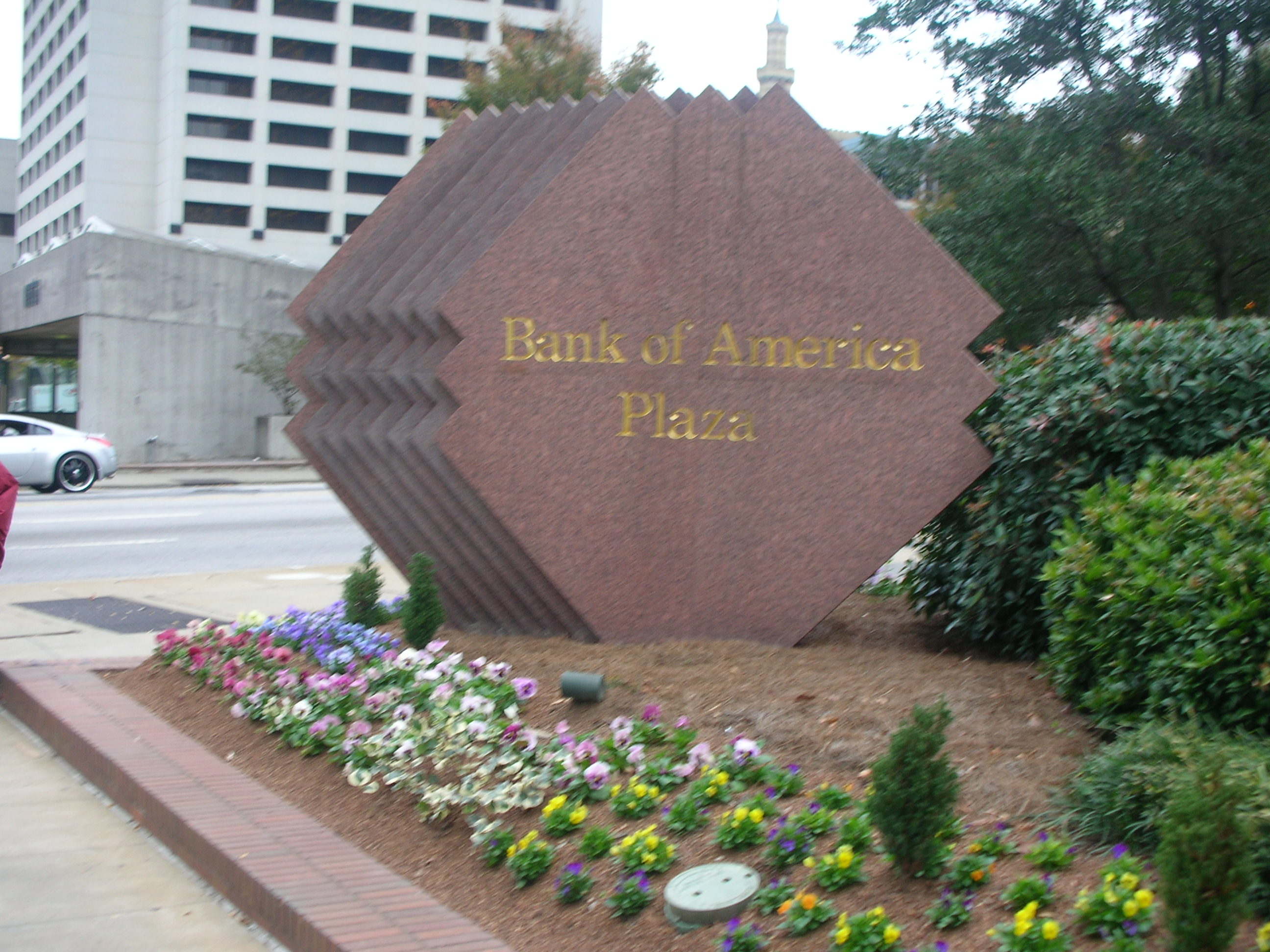 Sign outside Bank of America Plaza, in Atlanta, GA